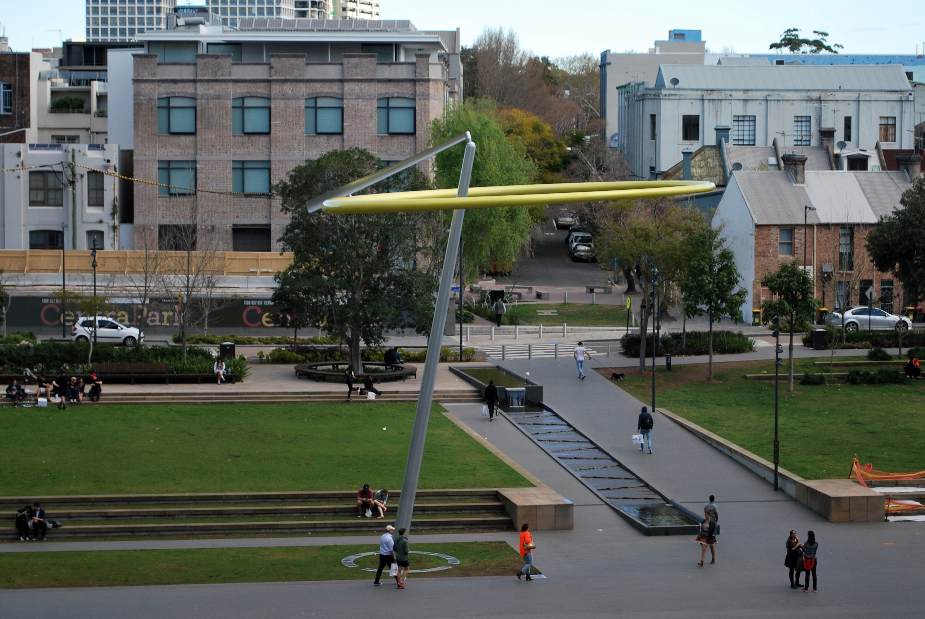 'Halo' viewed from Central Park shopping mall